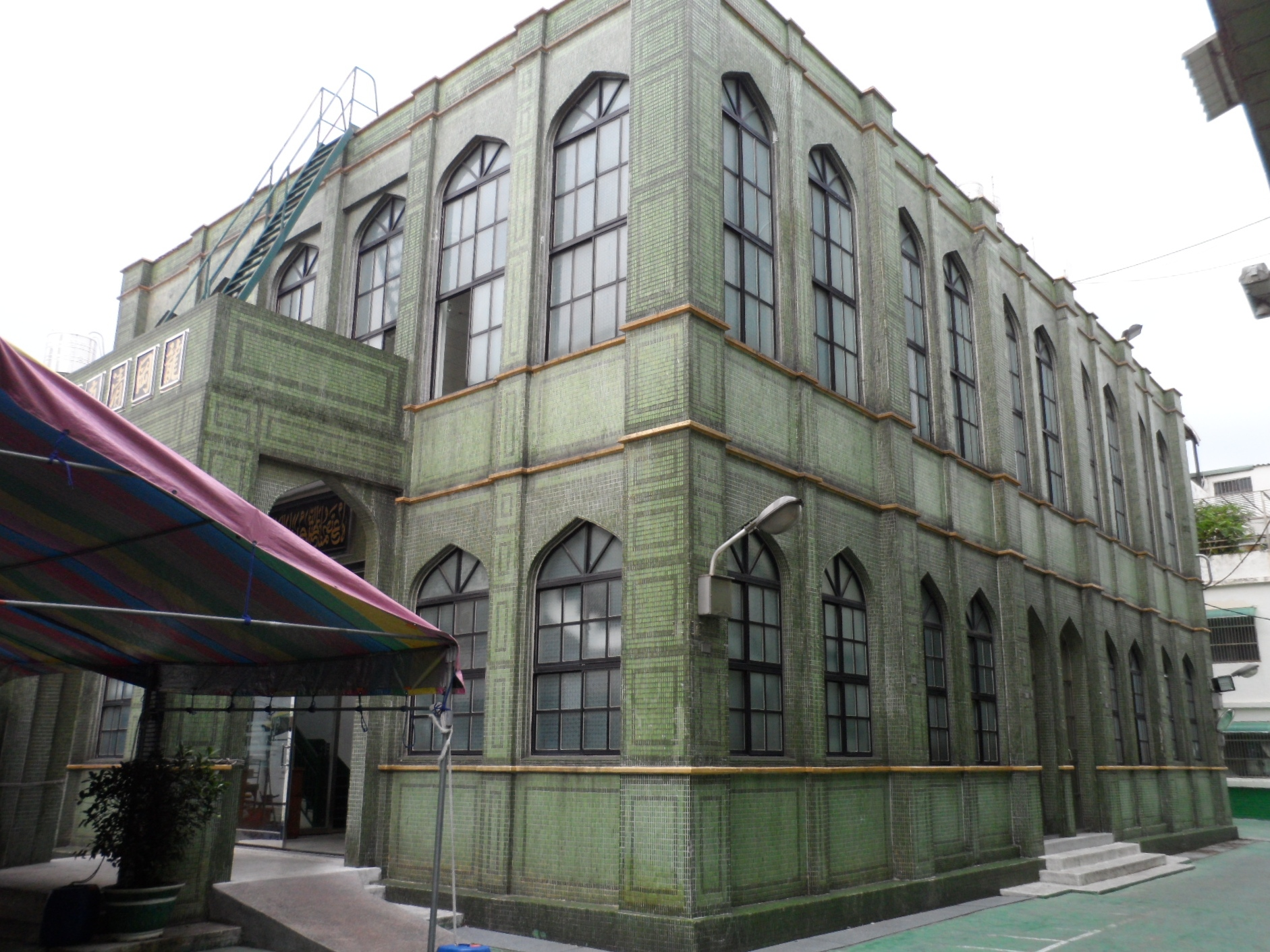 Longgang Mosque, Zhongli District, Taoyuan City, Taiwan